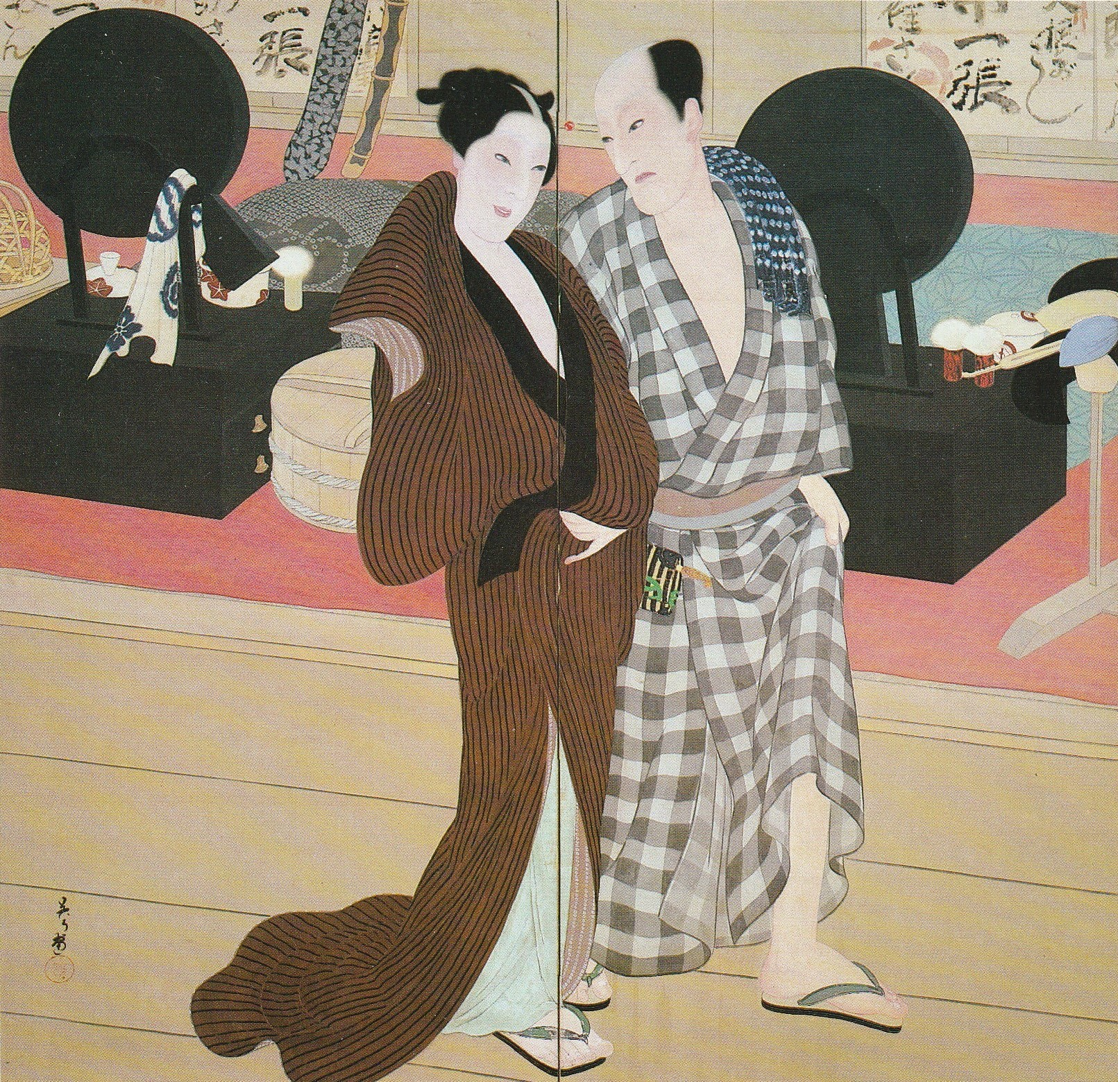 Bathing after Stage